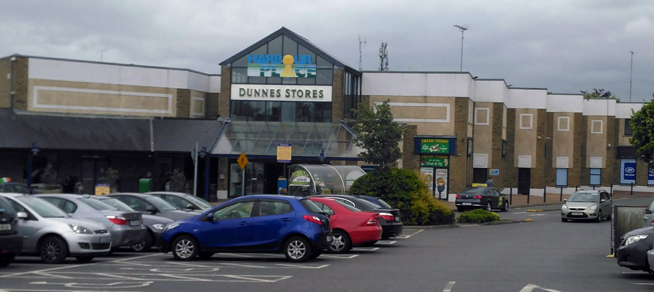 This is a photo taken in the centre's carpark of the exterior of the Harbour Place Shopping Centre which is located in Mullingar, Co. Westmeath, Ireland.